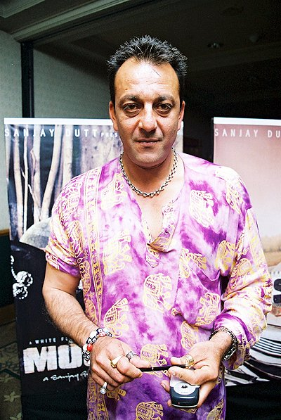 Sanjay dutt at Musafir press meet at IIFA, Singapore